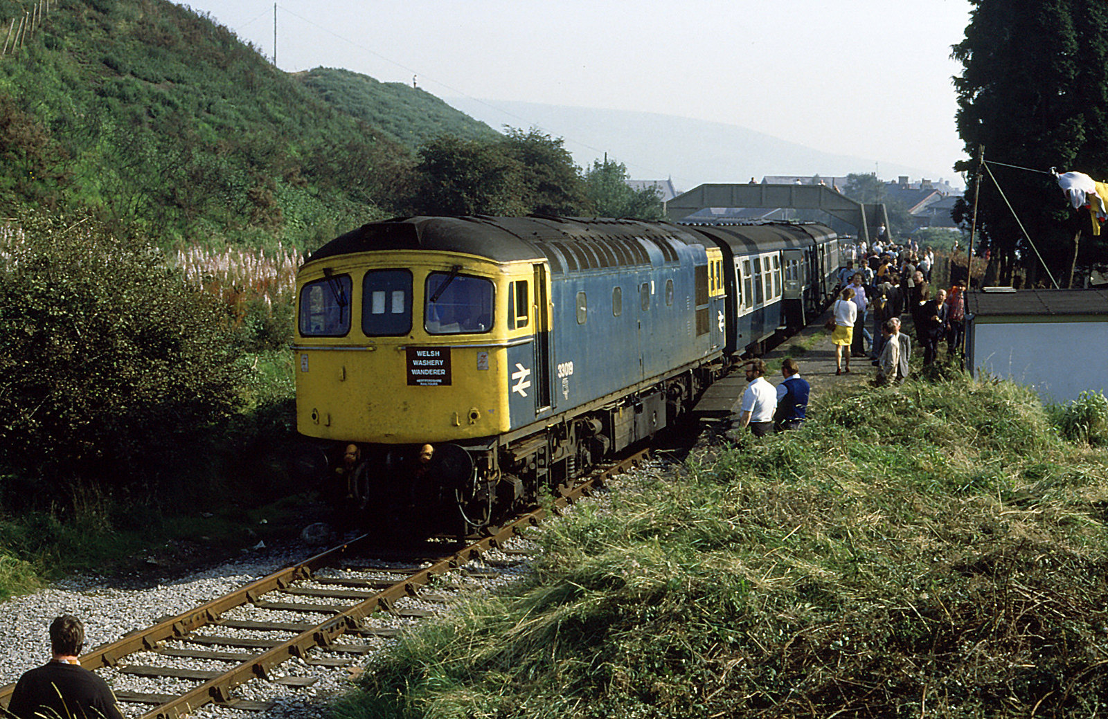 Maesteg Castle Street Station. Class 33, 33019 stands in the closed (1970) Maesteg Castle Street station with the Welsh Washery Wanderer railtour. The line fell into disuse following the closure of the pits it served in 1985. A new station was built about a quarter of a mile to the southeast of here in 1992 as British Rail reintroduced passenger services to the line. The track has since been removed beyond that station though the old platform is still here hidden in the undergrowth and the footbridge remains in place as a reminder that there was once a station here.